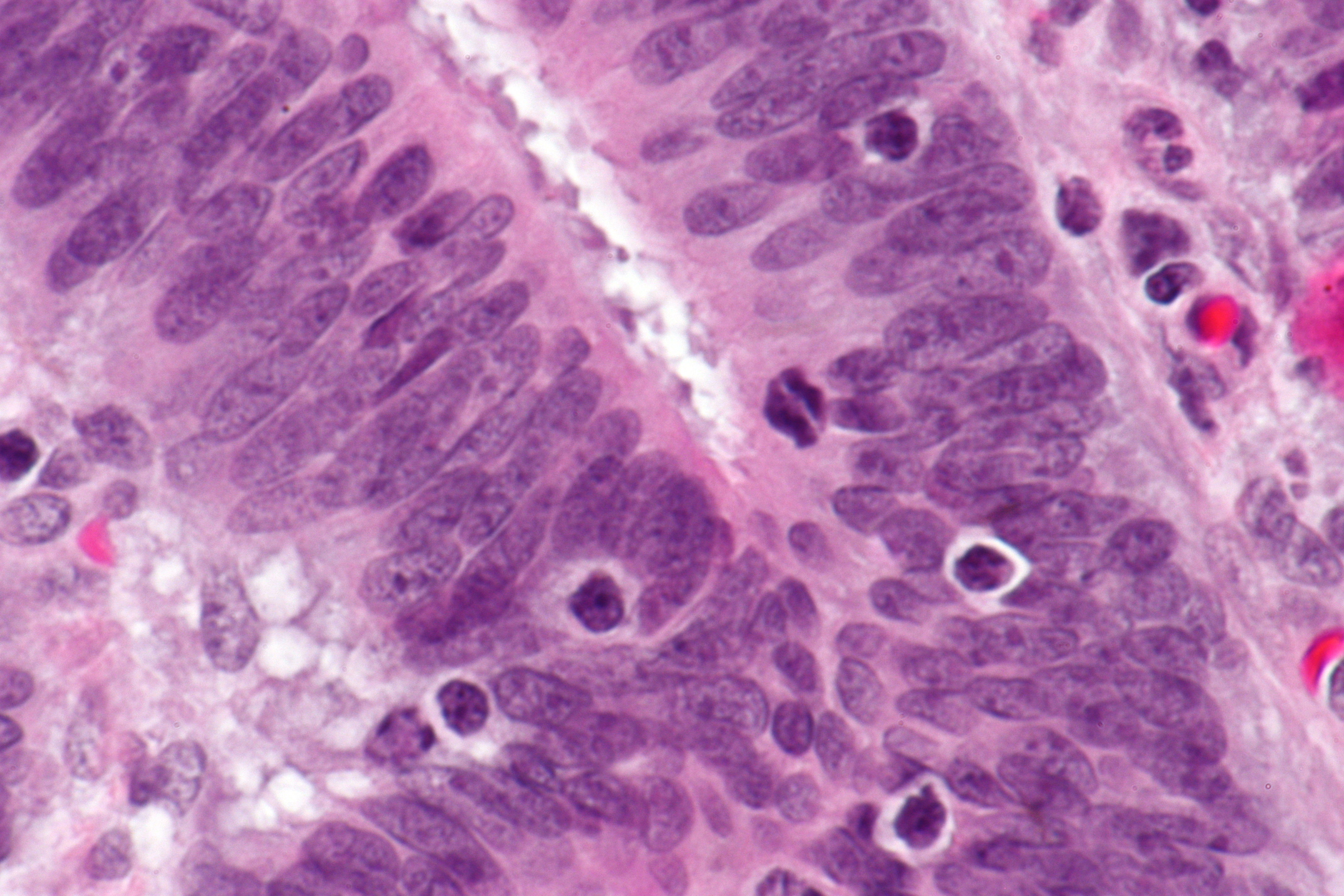 Micrograph showing tumour-infiltrating lymphocytes in colorectal carcinoma. H&E stain. Tumour-infiltrating lymphocytes (TILs) are suggestive of microsatellite instability (MSI), and may be seen in Lynch syndrome. Related images TILs - high mag. TILs - very high mag. TILs - extremely high mag. TILs - high mag. TILs - very high mag.